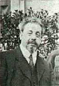 Franz Helfferich